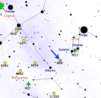 Map of M56